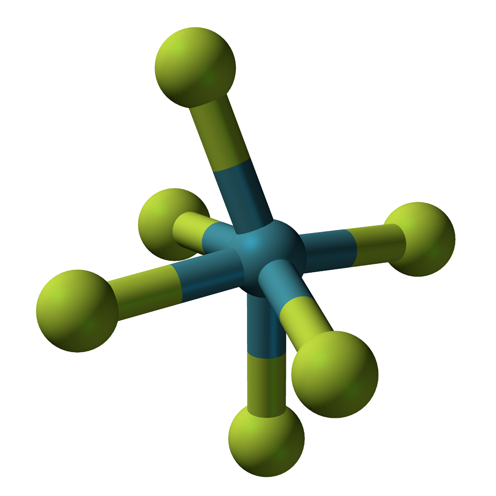 Ball-and-stick model of the xenon hexafluoride molecule, XeF6. Structural data from ISBN 978-4807906680.